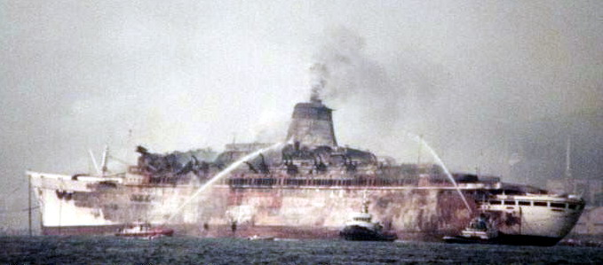 The liner MN Leonardo Da Vinci in fire